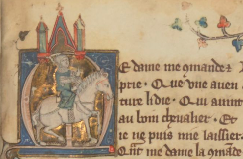 Miniature and first five lines of L’âtre périlleux, Arthurian Romance of the 13th Century.